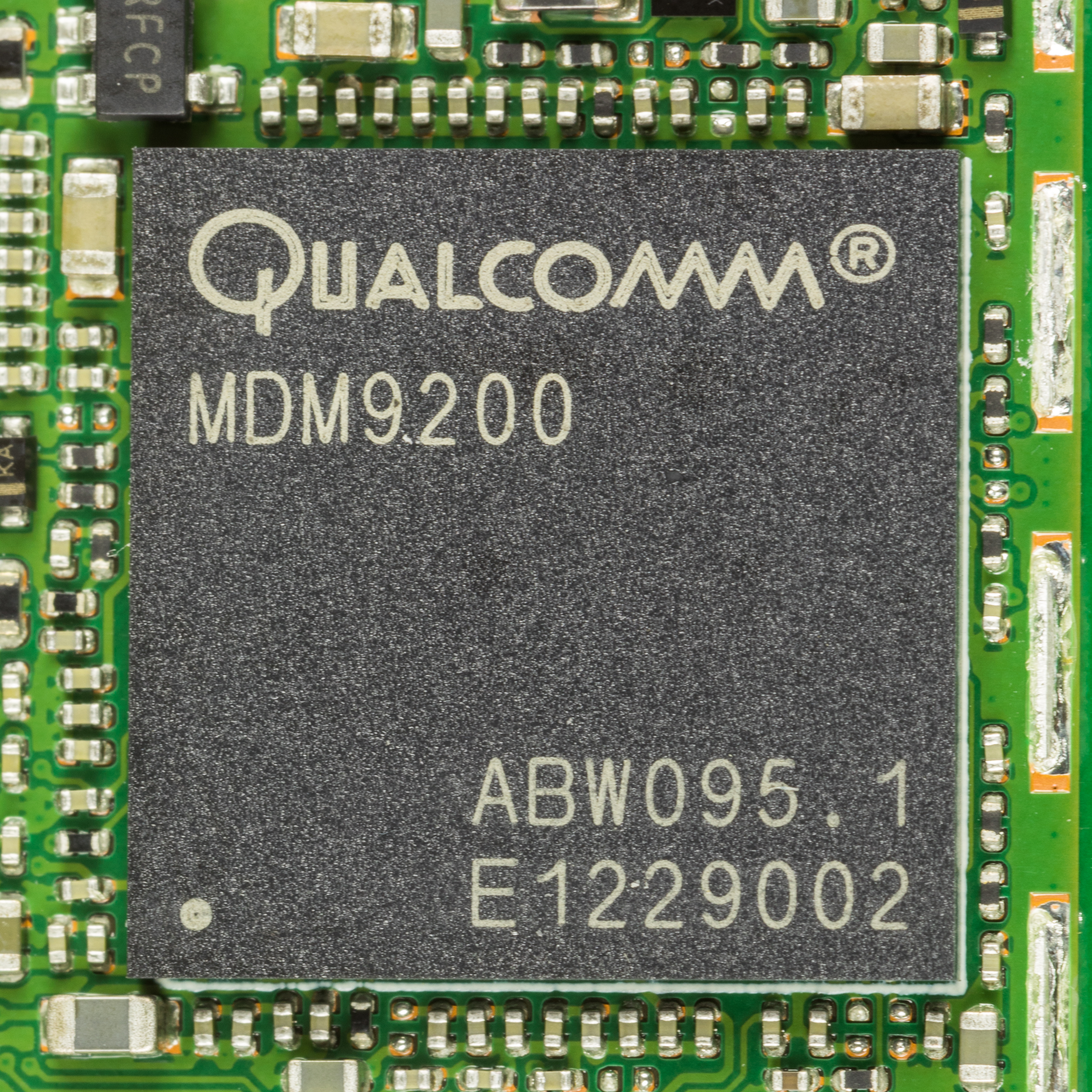 TCT Mobile one touch L100V - board - Qualcomm MDM9200 - modem chip